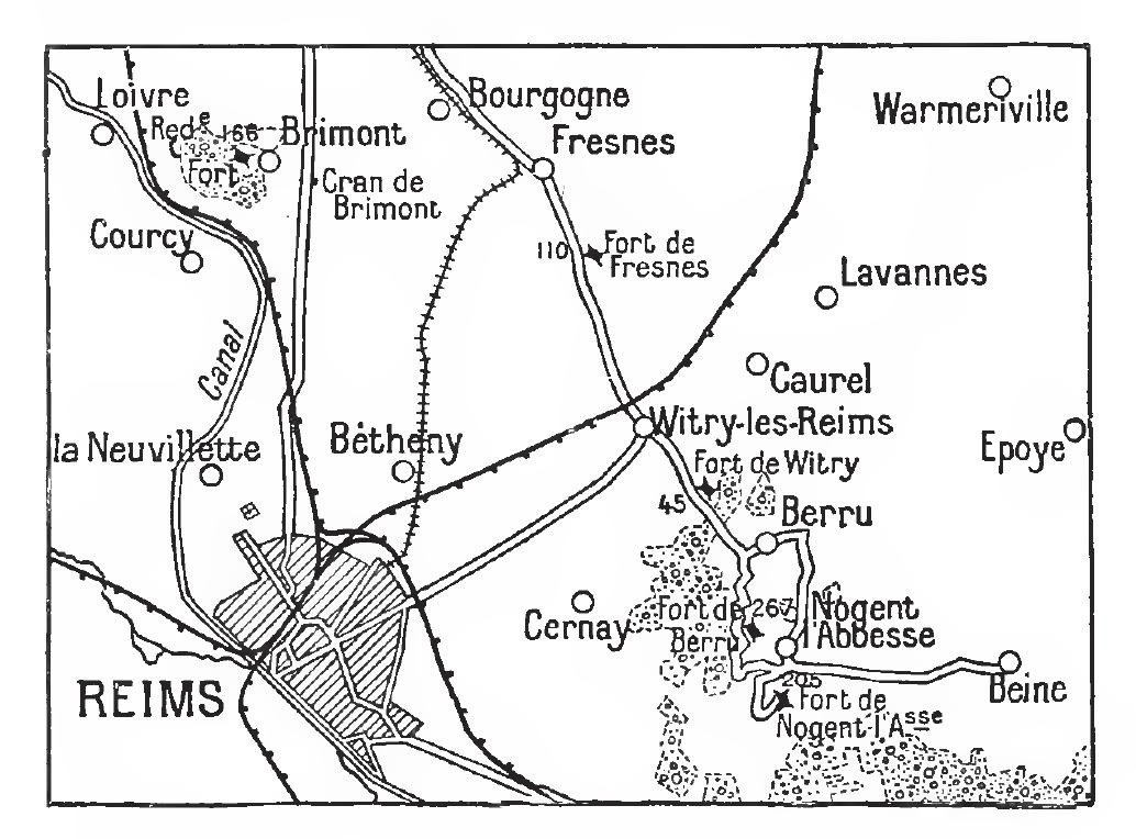 Map, Rheims area, 1915-1917